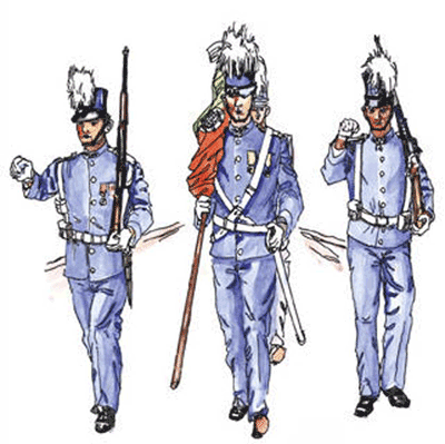 drawing of the standard bearer of instituto militar dos pupios do exercito with the escort